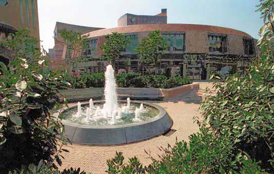 Casino of Koksijde (Belgium)